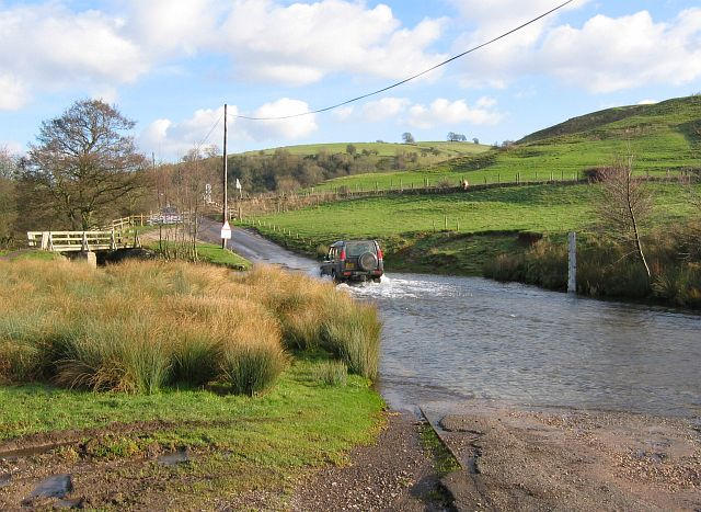 Crossing the ford The ford at the end of the road leading through the Tissington Estate. A footbridge takes walkers a slightly drier route across Bradbourne Brook!